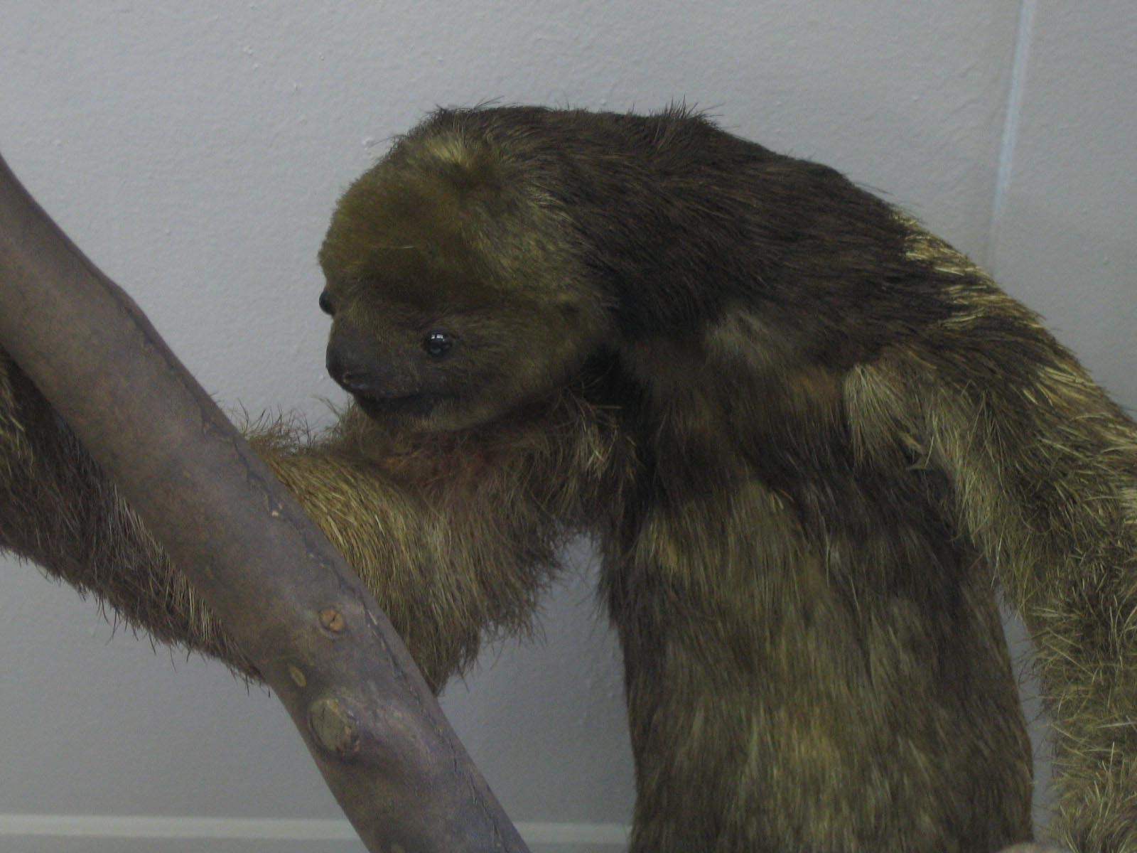 Bradypus torquatus of "Museu de Zoologia" of Barcelona